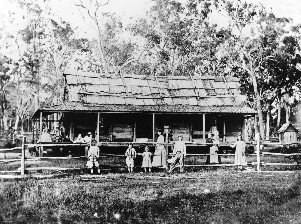 Photographer: William Boag Location: Ormeau, Queensland, Australia Description: Boag arrived in Queensland in November 1871. He travelled around the south-east, along the foreshore of Moreton Bay and the township of Cleveland. He then moved into the Logan and Albert area where he captured images of local crushing mills and sugar plantations. While at Yatala, he took on a partner, John Henry Mills, and by the end of 1872, both men were in Stanthorpe where they remained for several months, producing views of the booming tin-mining settlement. View this image at the State Library of Queensland: Information about State Library of Queensland’s collection